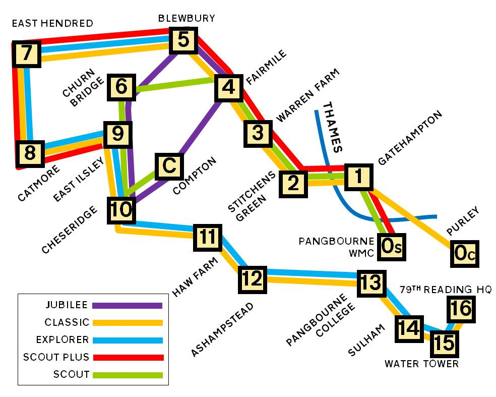 This is a summary of the five event routes of the Three Towers Hike, as from 2013.